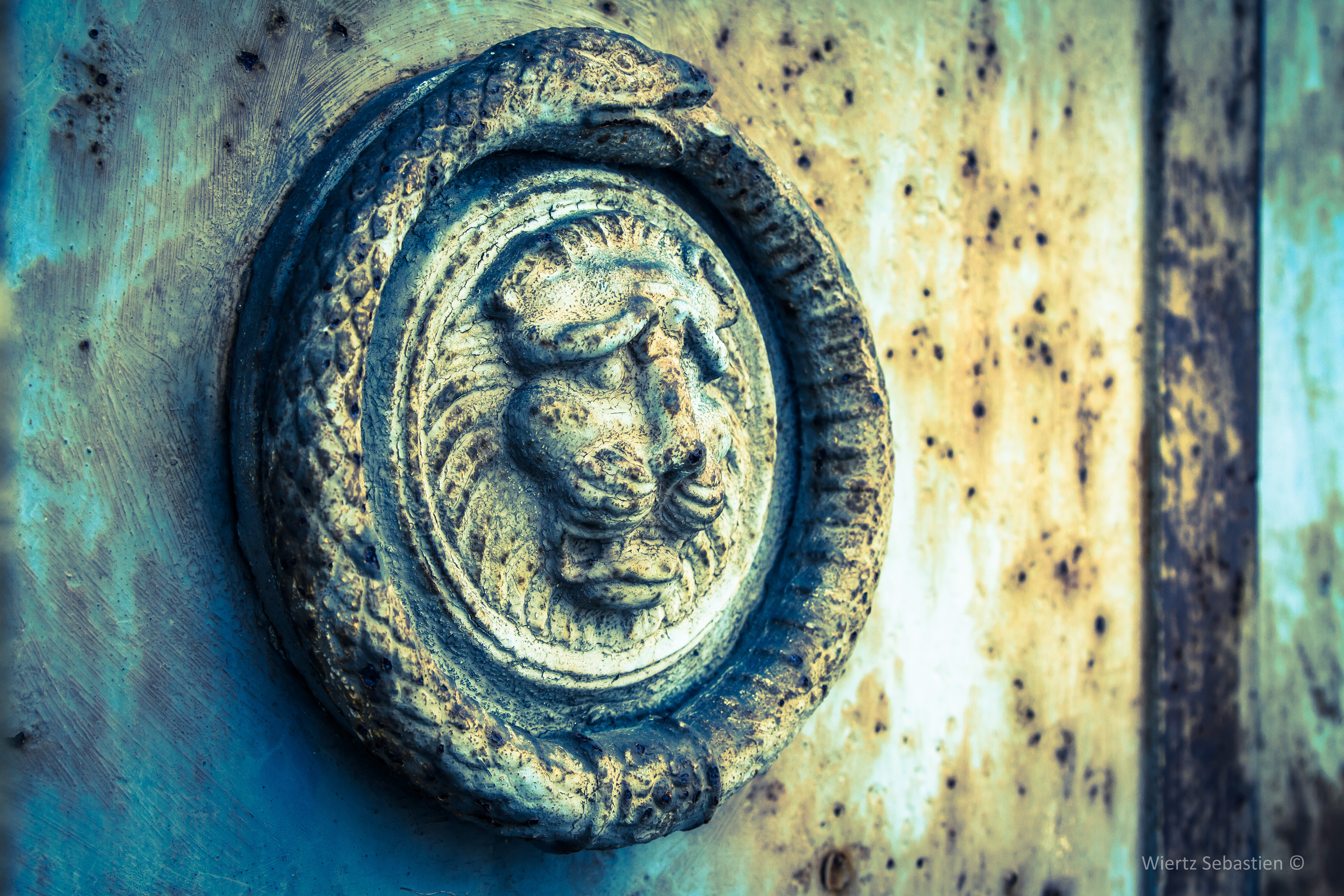 The Ouroboros (or Uroborus) is an ancient symbol depicting a serpent or dragon eating its own tail. The name originates from within Greek language; οὐρά (oura) meaning "tail" and βόρος (boros) meaning "eating", thus "he who eats the tail". (wikipedia definition)